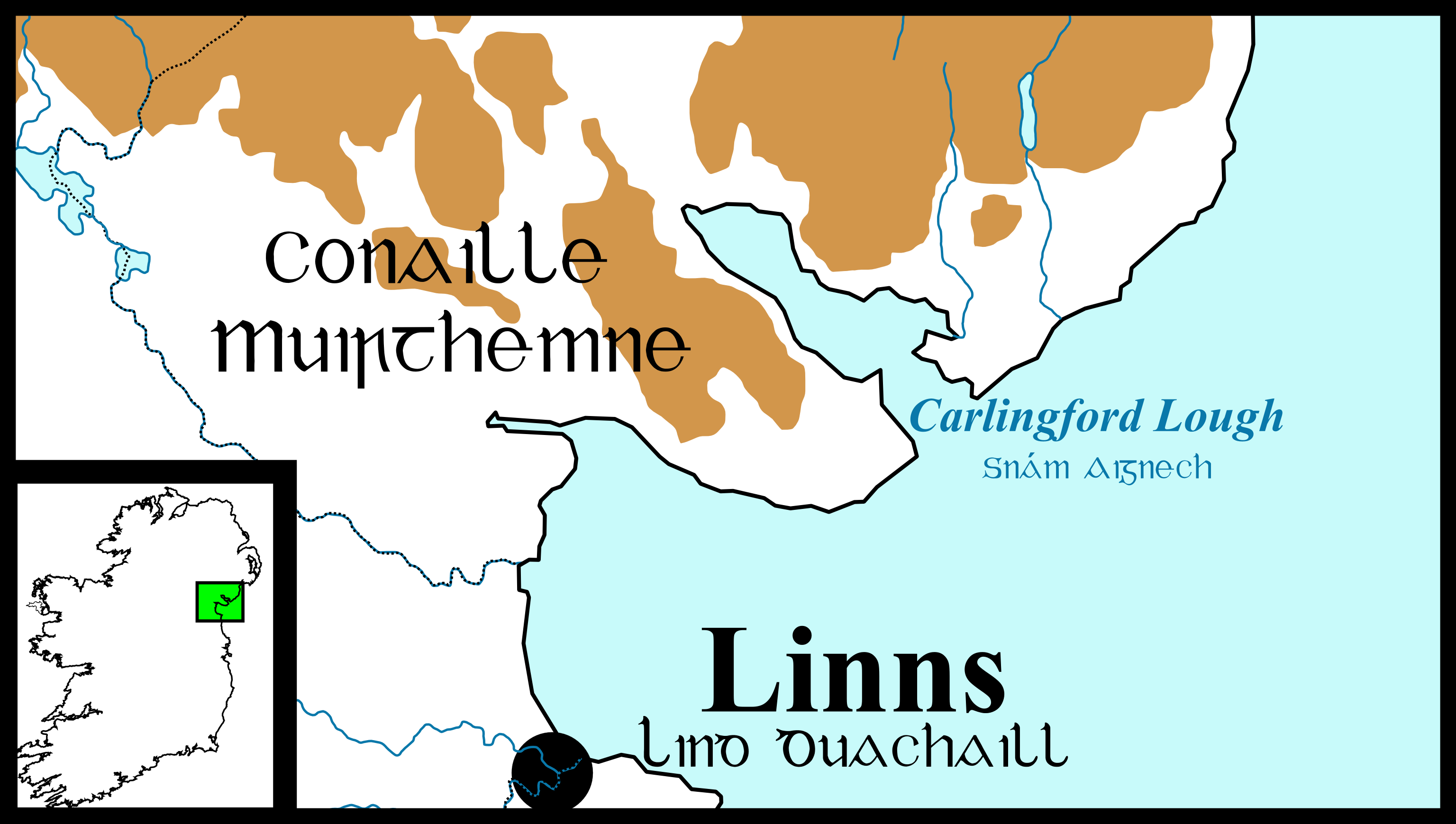 .png version of .svg file of the same name